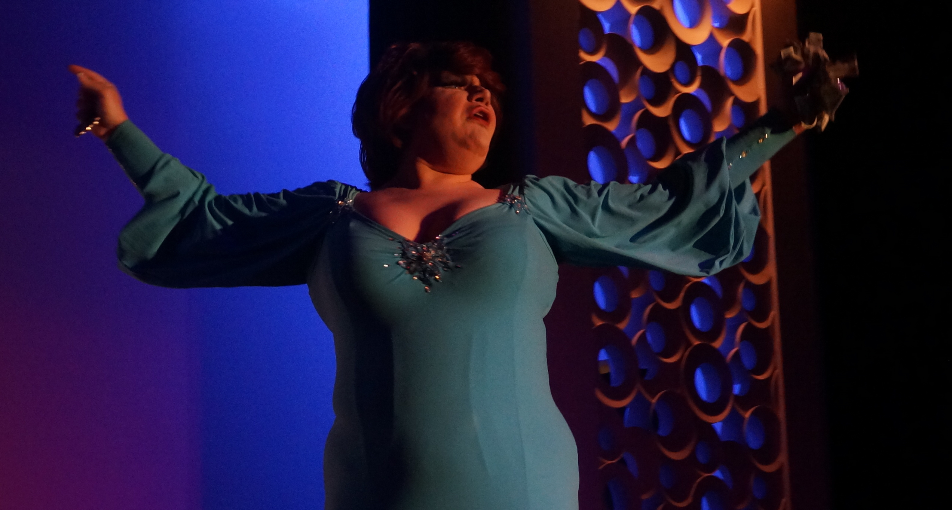 Victoria "Porkchop" Parker at Louisville Queens for the Cure Drag Show